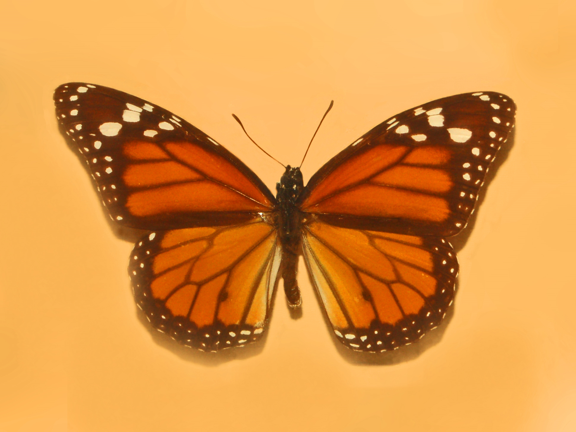 Danaus erippus from Peru